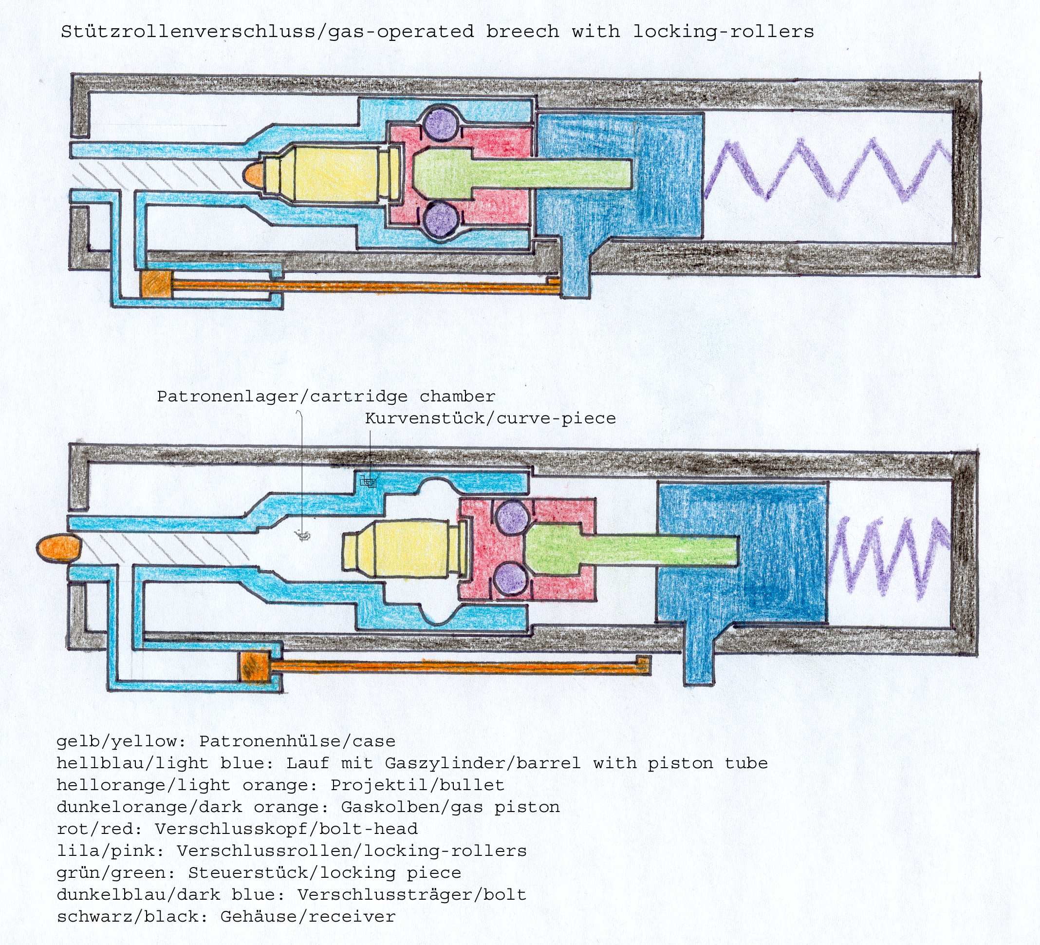 Gas operated breech for automatic weapons that bolts by the use of locking rollers